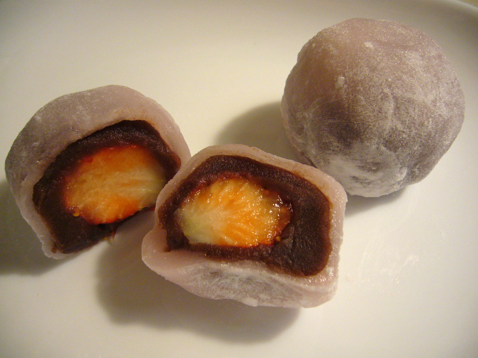 Soft rice cake stuffed with sweetened bean & strawberry,katori-city,japan